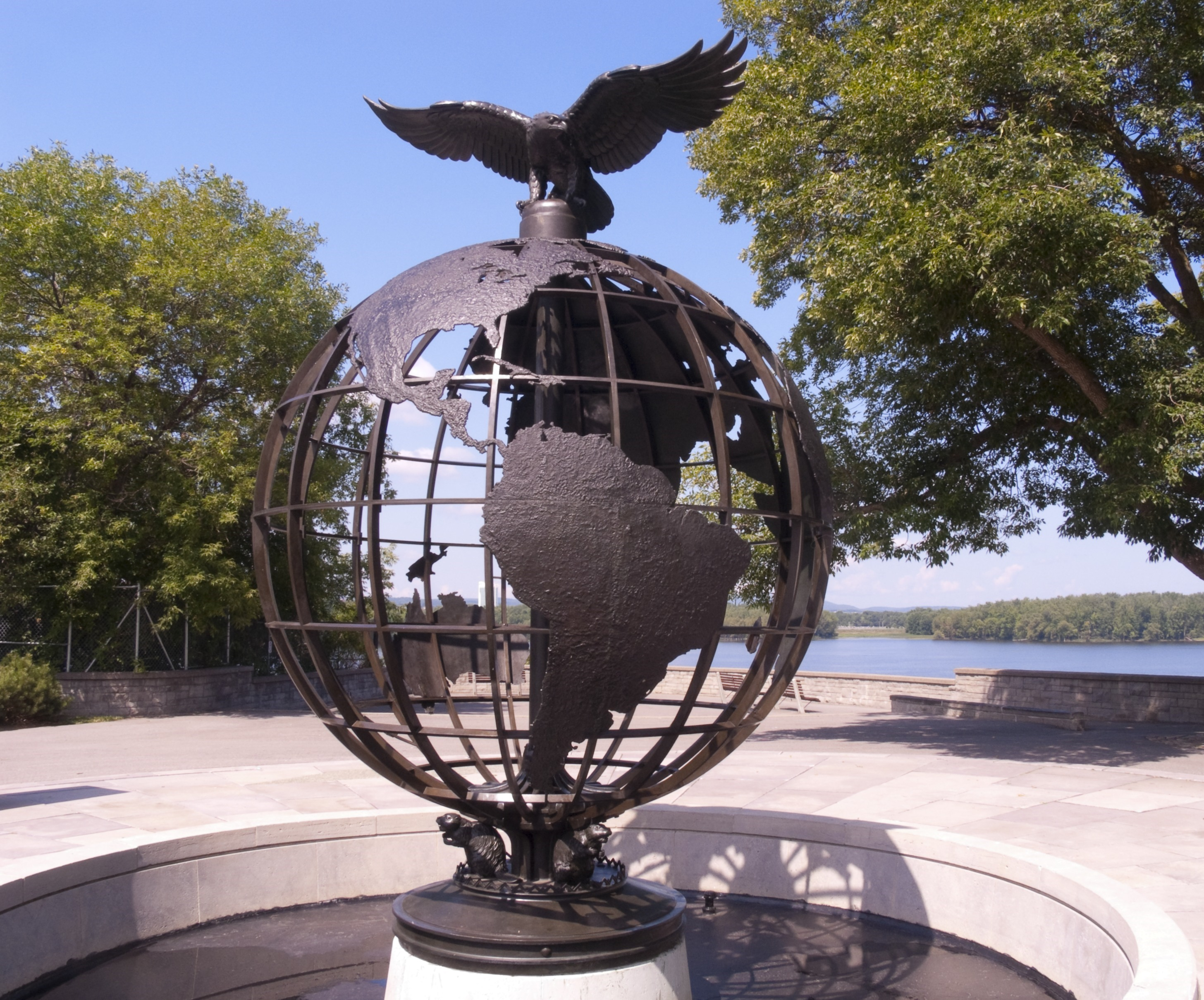 The Ottawa Memorial. Dedicated to missing airmen of the Second World War. Sometimes known as the Commonwealth Air Force Monument.